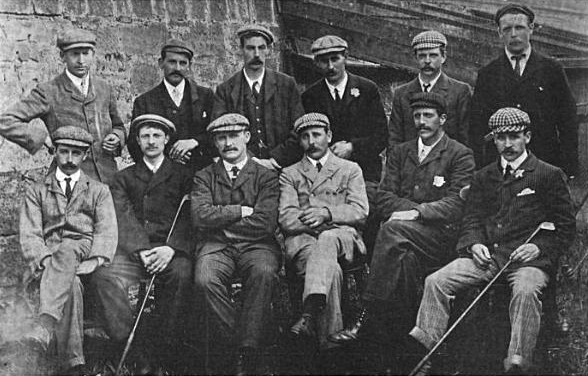 A group photo of the 1903 English golf team prior to their match against Scotland. There are a number of famous golfers in the photograph. James Sherlock stands back row on the far left. Front row third from left is J. H. Taylor and to his left is Tom Vardon. Albert Tingey, Sr. holds a spoon in hand on the far right, front row. Ted Ray is seated second from the right.